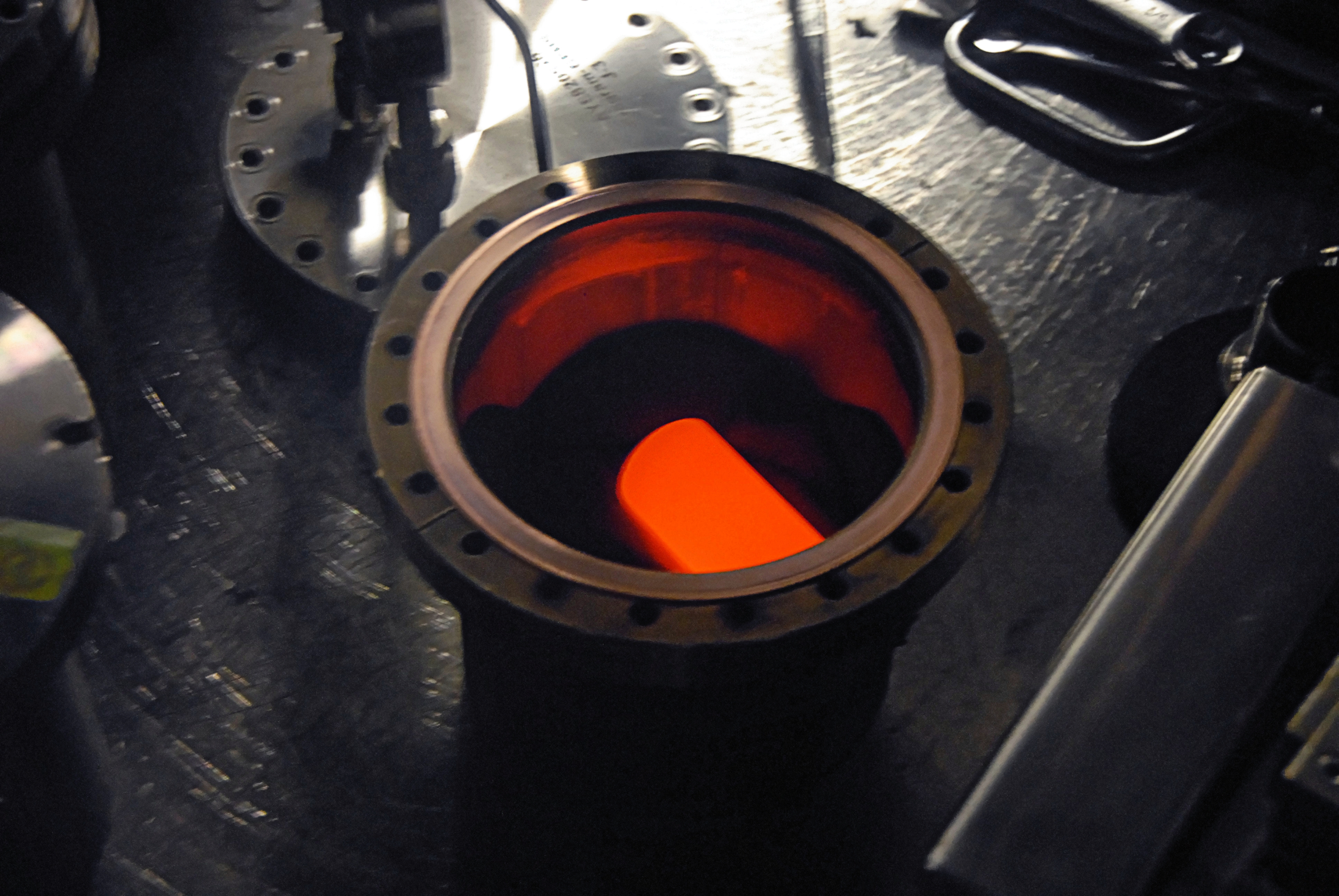 Nuclear heat sources for the Mars Science Laboratory’s radioisotope power system were assembled into high-strength graphite impact shells at Idaho National Laboratory. Learn more about this project and view NASA's Curiosity videos at